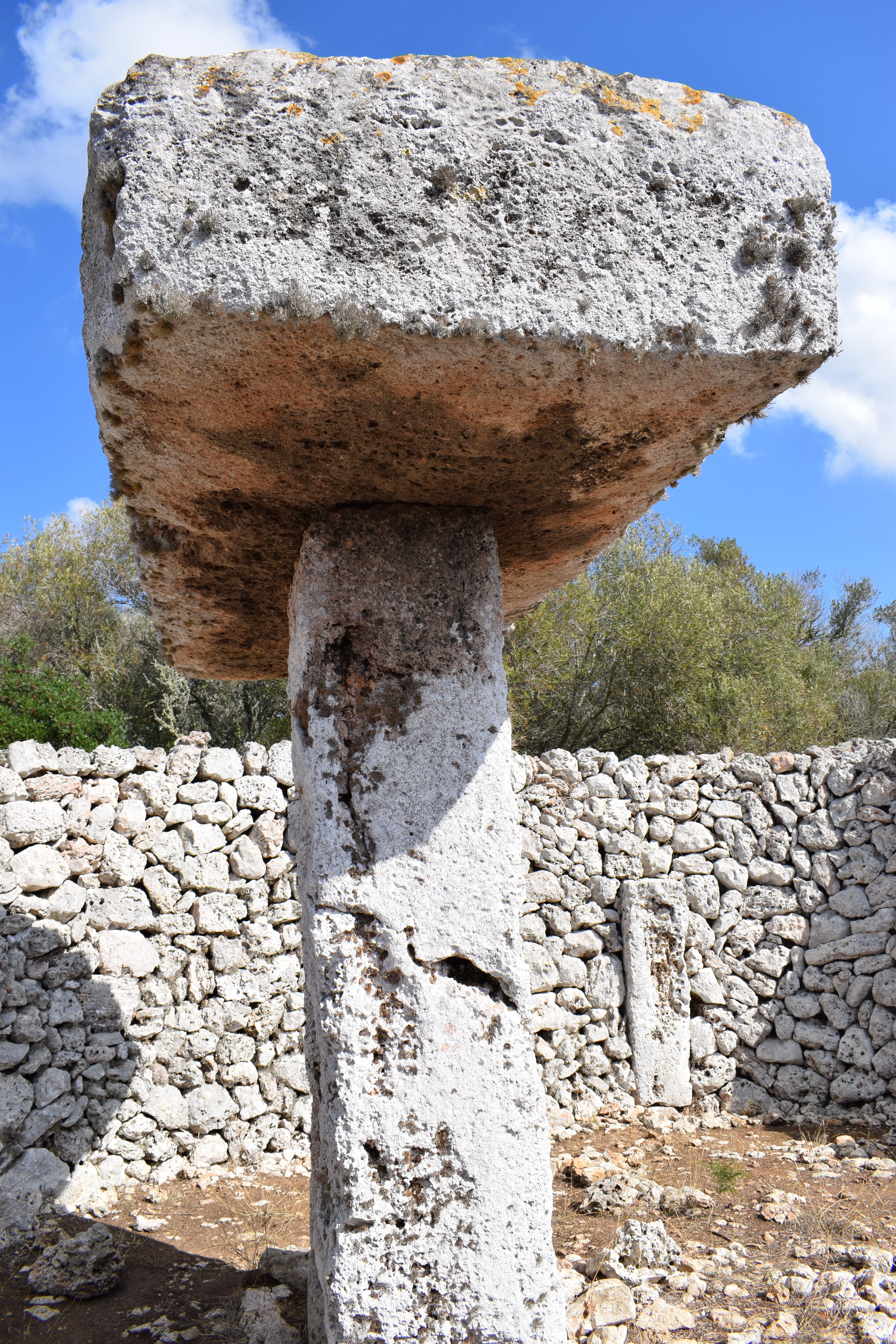 Torrellisar Vell Taula, Alaior, Minorca.